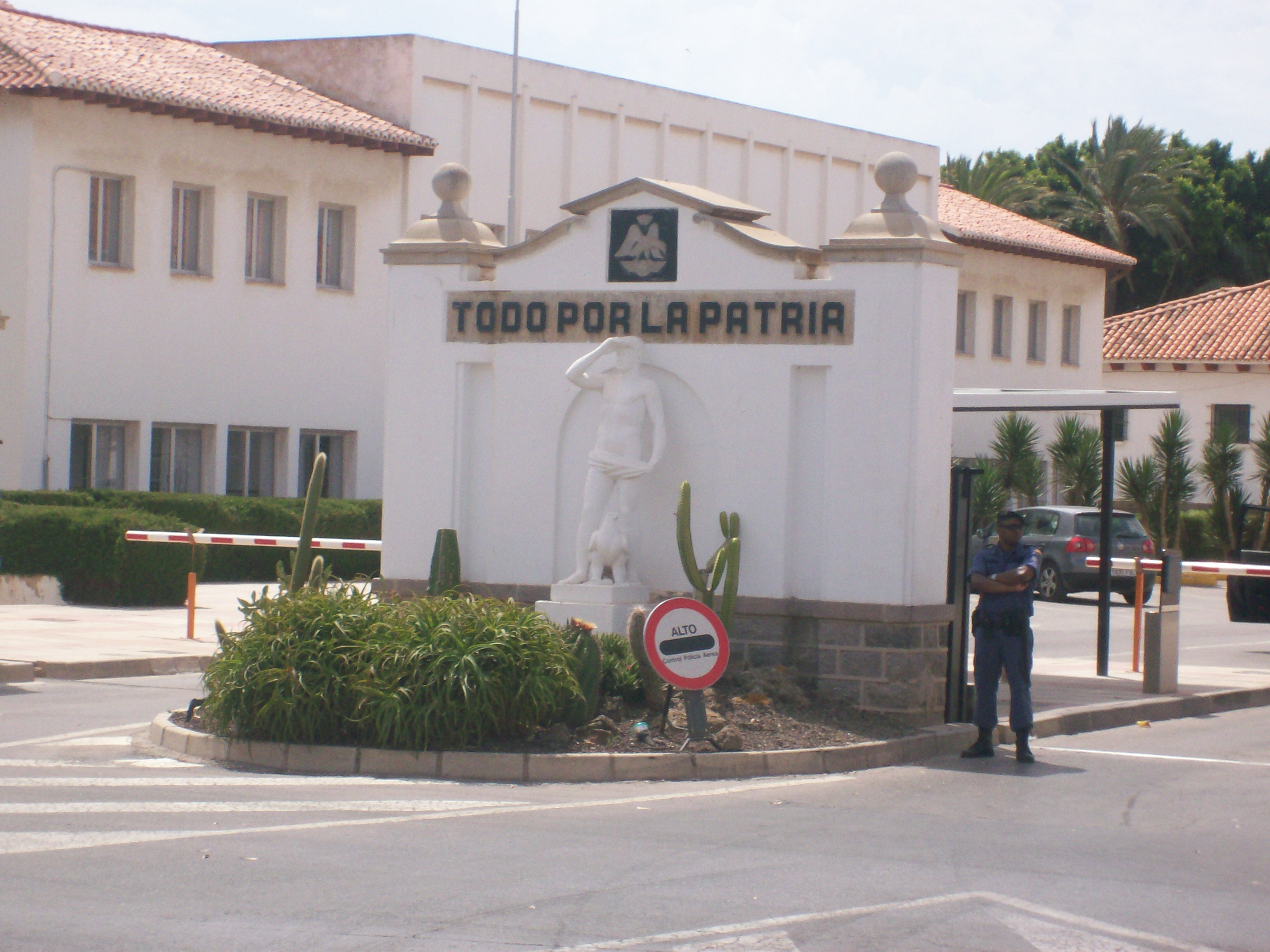 Control of access to Academia General del Aire, which is placed in Maestre Street in Santiago de la Ribera (Murcia), (Spain)